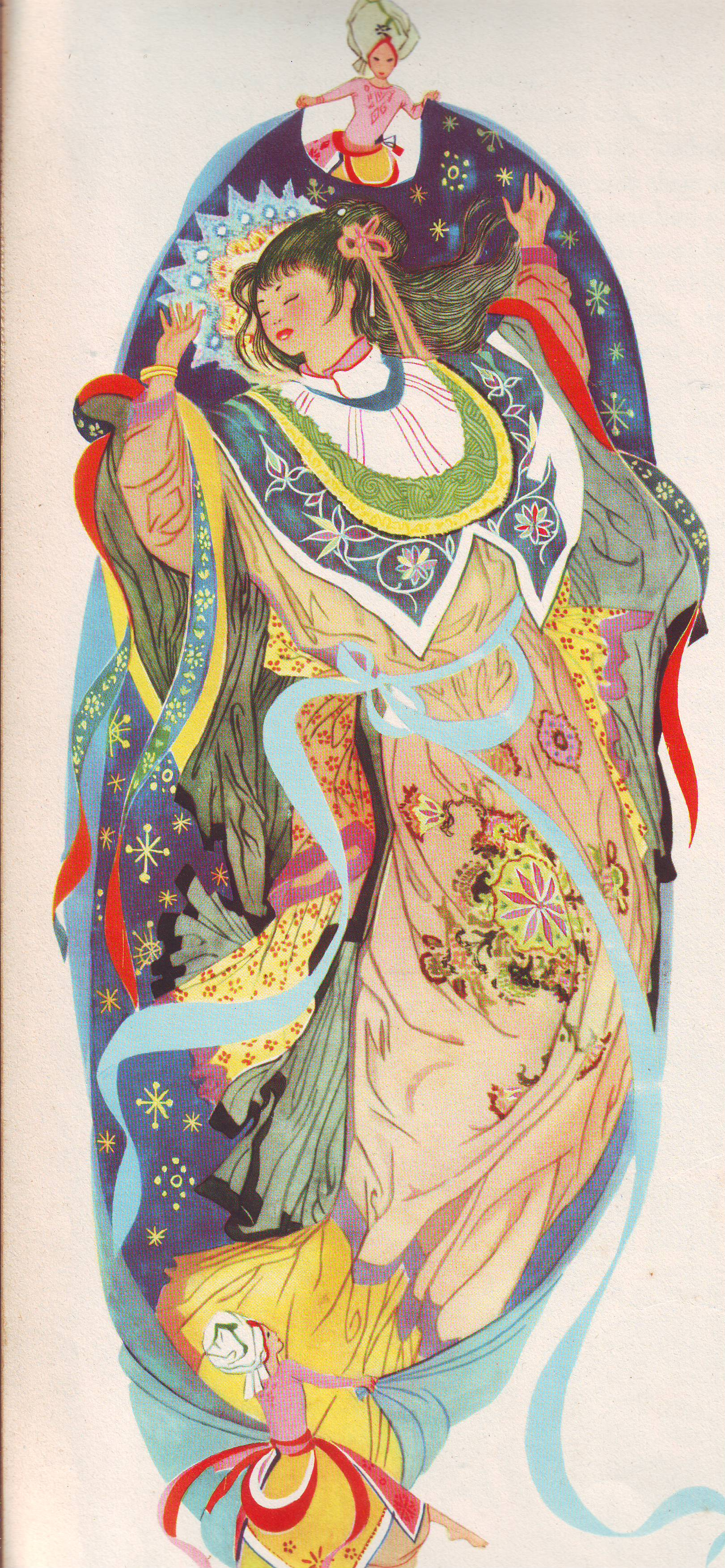 A Benvenuti illustration of arabic fairy tales